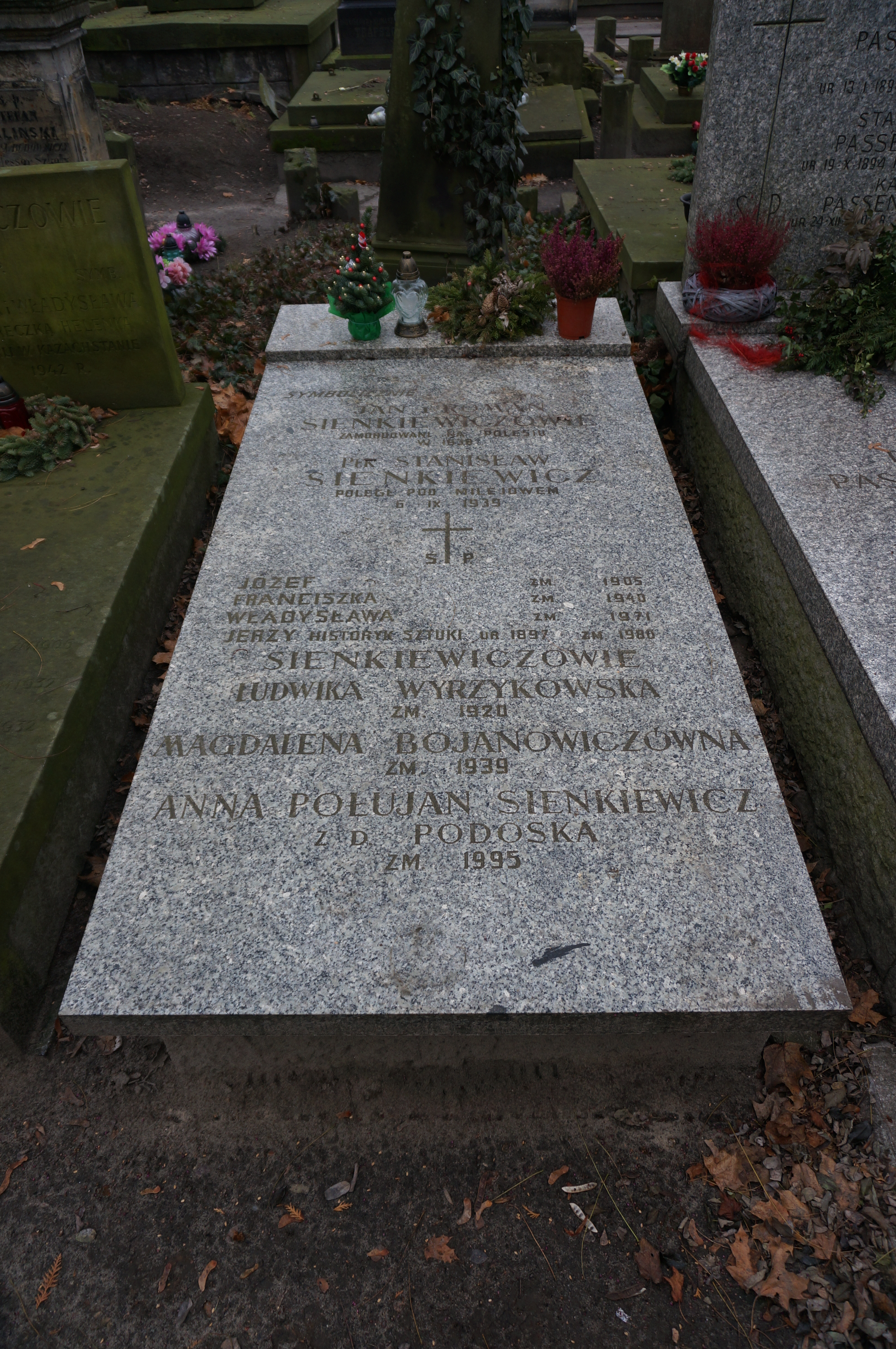 The grave of Jerzy Sienkiewicz at the Powązki Cemetery (section N, row 3, grave 16)